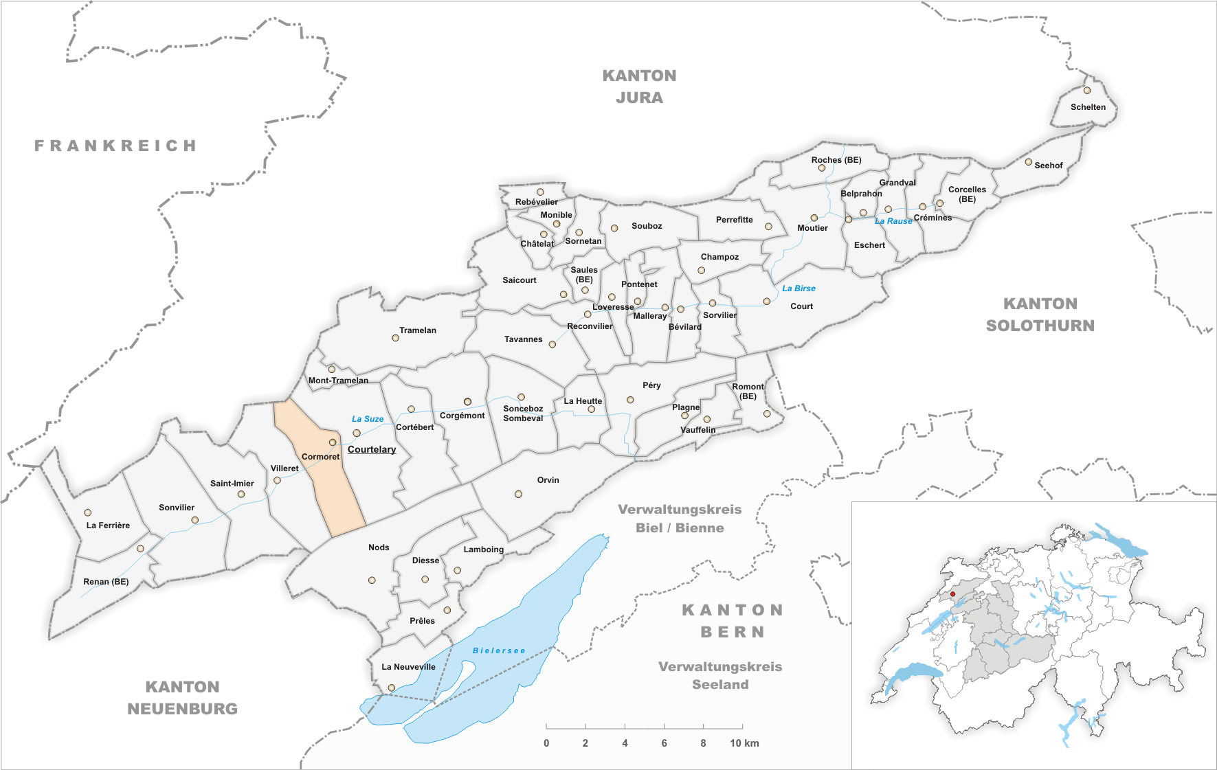 Municipality Cormoret